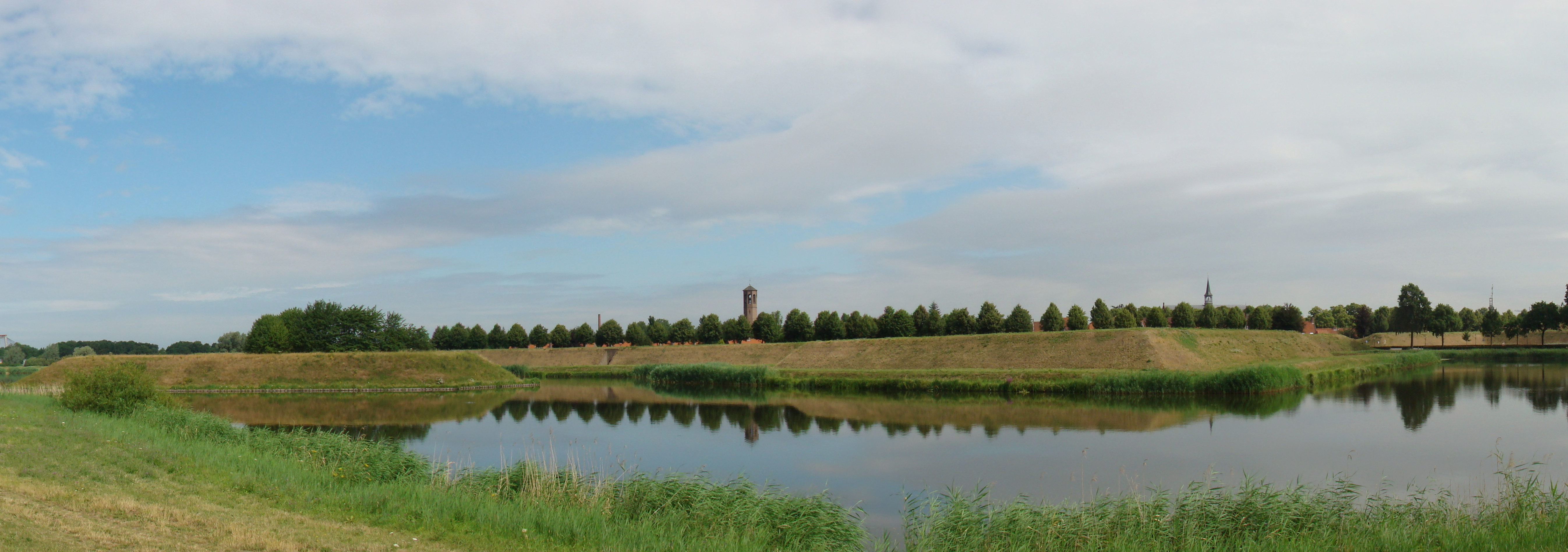 Panorama pictures of Heusden (Netherlands)